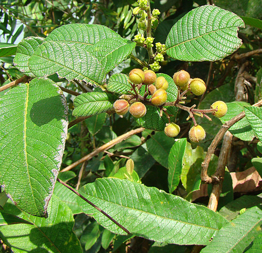 Found widely in the Neotropics. Also known as Bejuco de Agua, as it is a source of drinkable water. Photo from Lago Gatun area, Panama. In context at